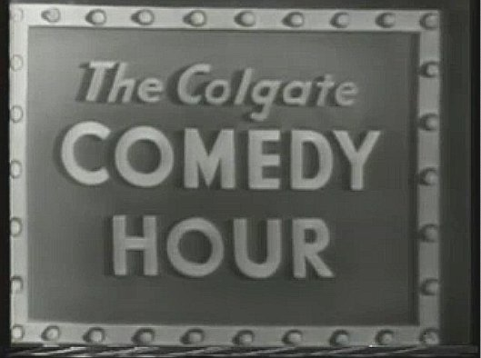 Title card extracted from the public domain movie in the link shown. Sharpened and contrast/brightness adjusted a bit. From the Video Cellar Collection on . Public domain: "Unless otherwise noted, the films in this collection are public domain and are free to be redistributed, reused or remixed. "